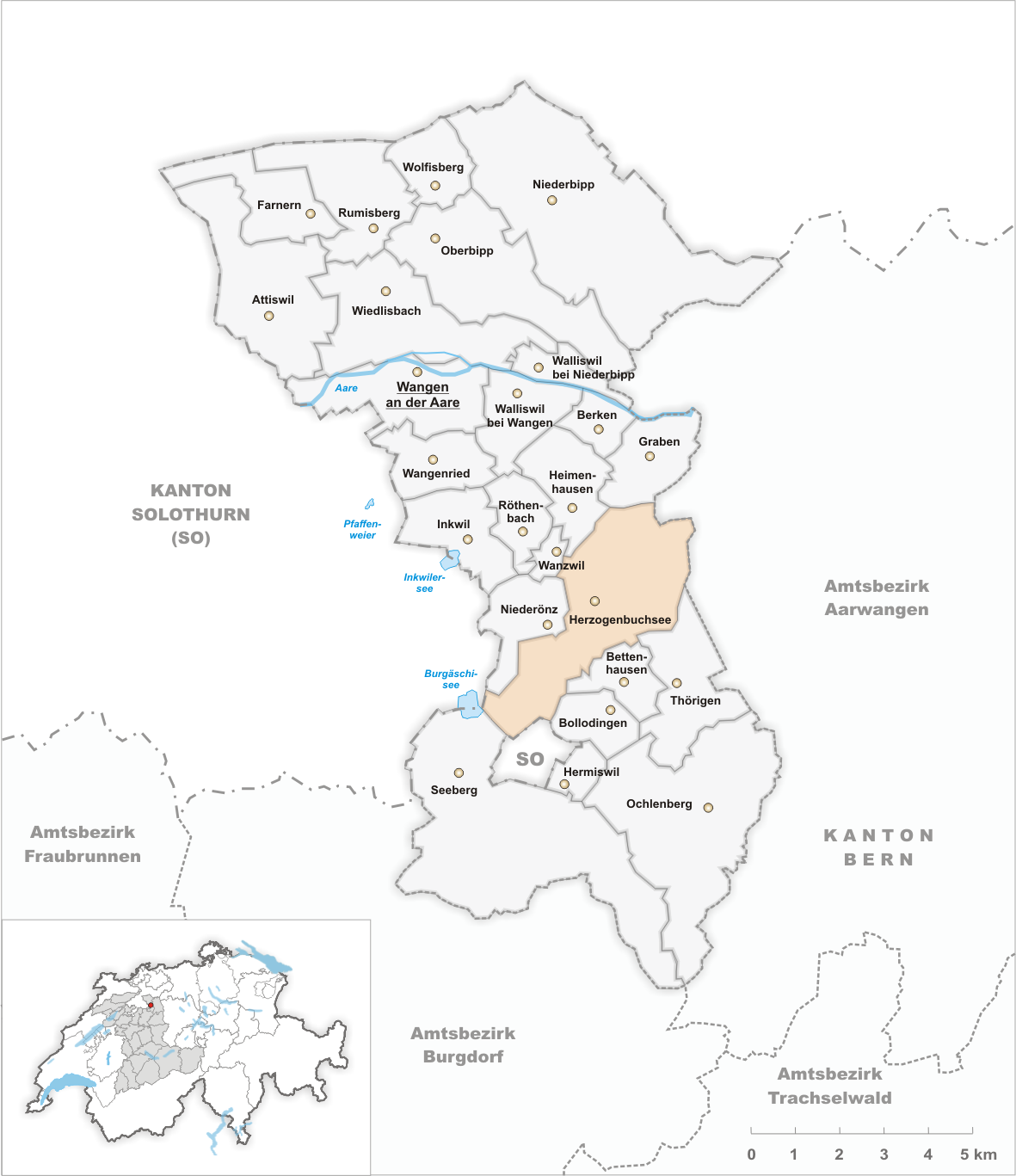 Municipality to Herzogenbuchsee 2008